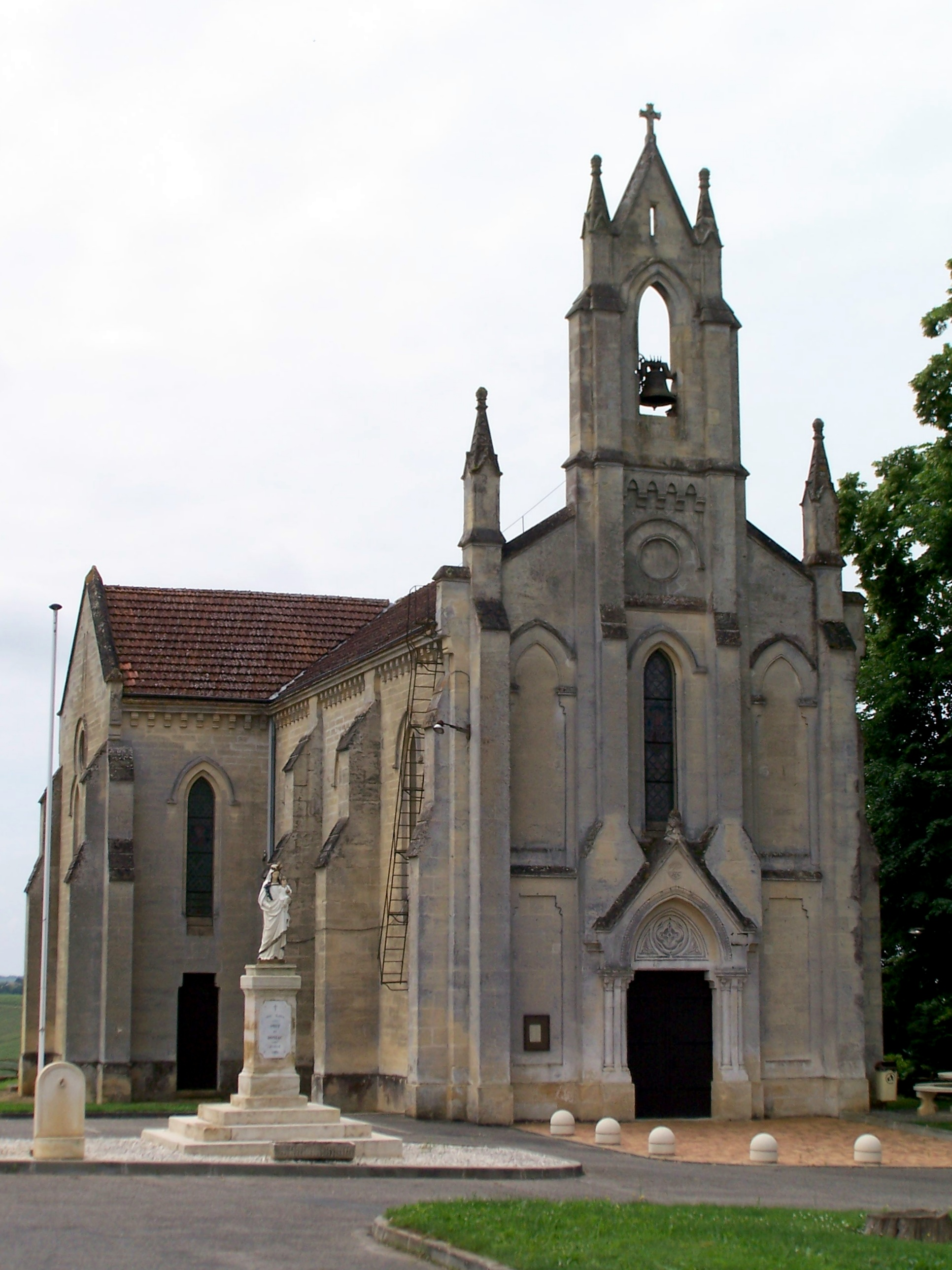 Saint-Sulpitius church of Omet (Gironde, France)